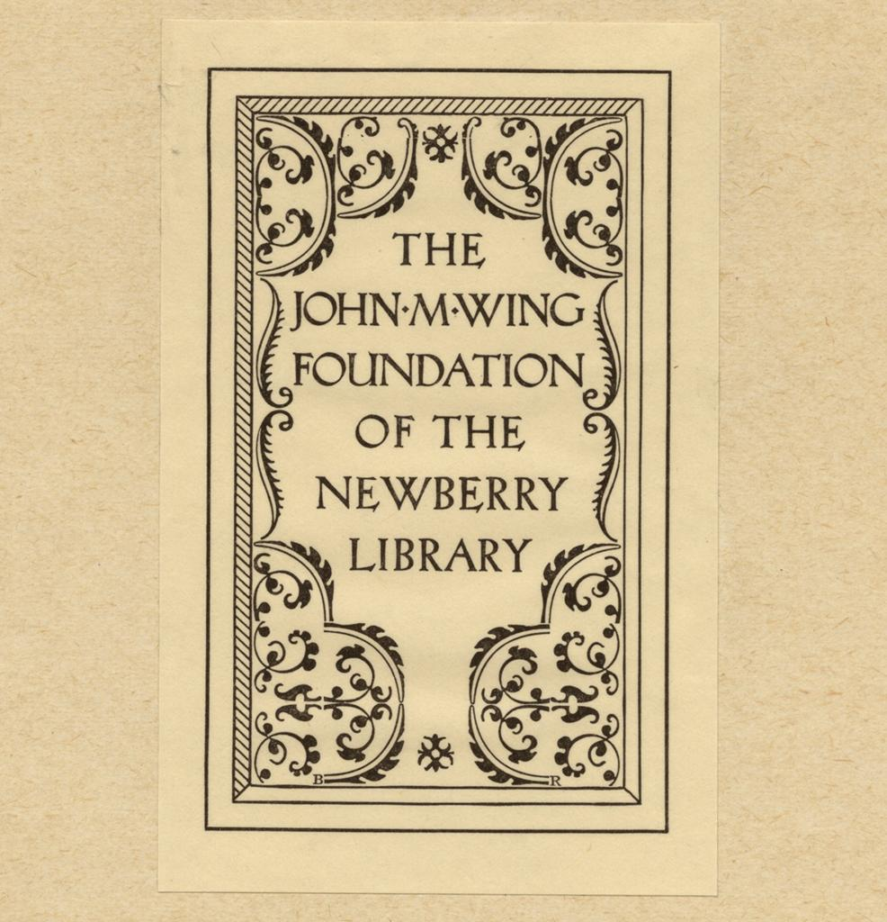 Textual Bookplates. Subject: Labels. Subject - Corporate Name: John M Wing Foundation; Newberry Library.